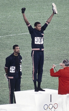 American sprinters Tommie Smith and John Carlos, along with Australian Peter Norman, during the award ceremony of the 200 m race at the Mexican Olympic games. During the awards ceremony, Smith (center) and Carlos protested against racial discrimination: they went barefoot on the podium and listened to their anthem bowing their heads and raising a fist with a black glove. Mexico City, Mexico, 1968.